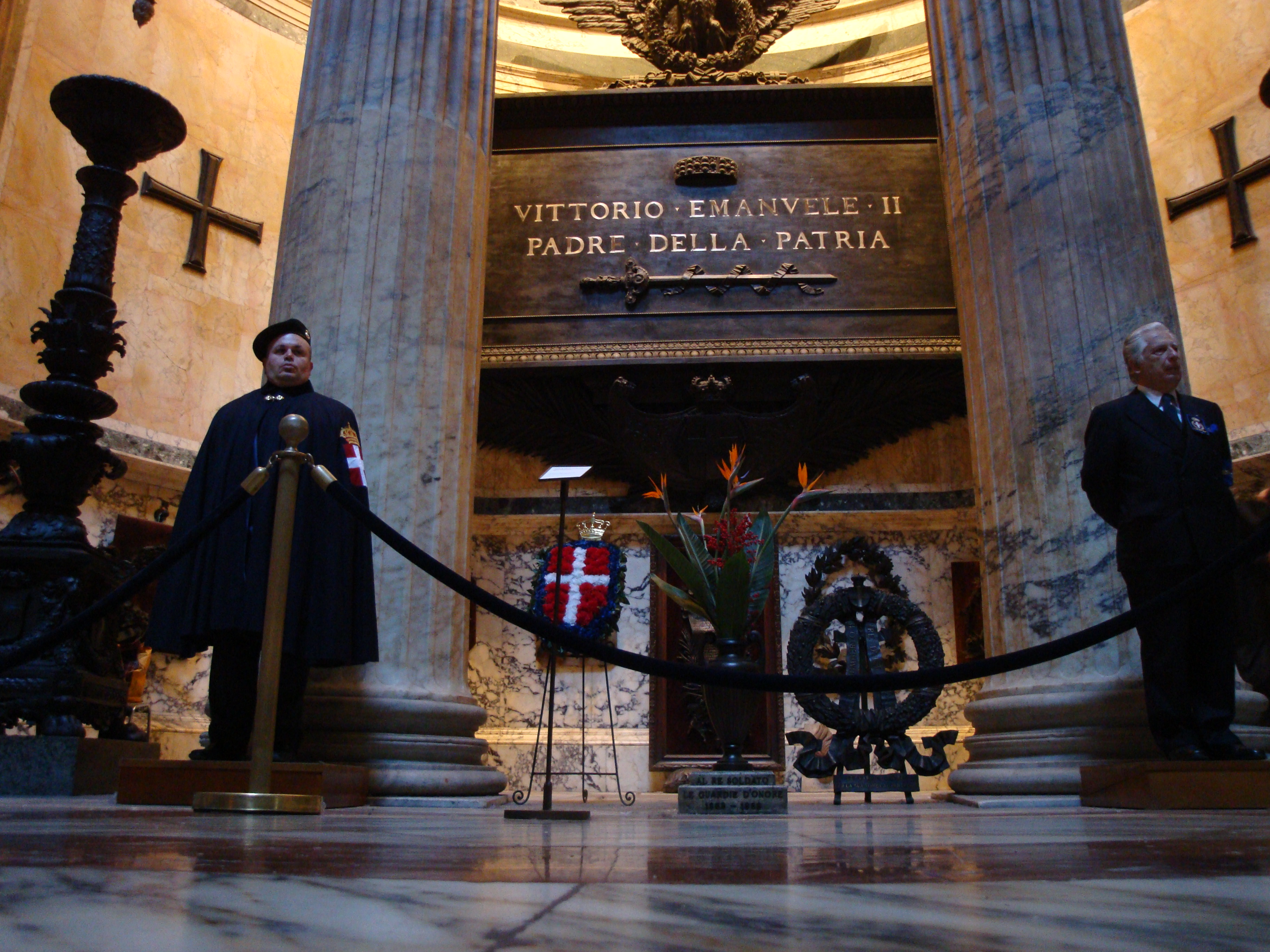 Tomb of Victor Emmanuel II in Pantheon (Rome, Italy)